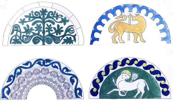 Drawings of four tympanons of Hungarian old romanesque church doorways.